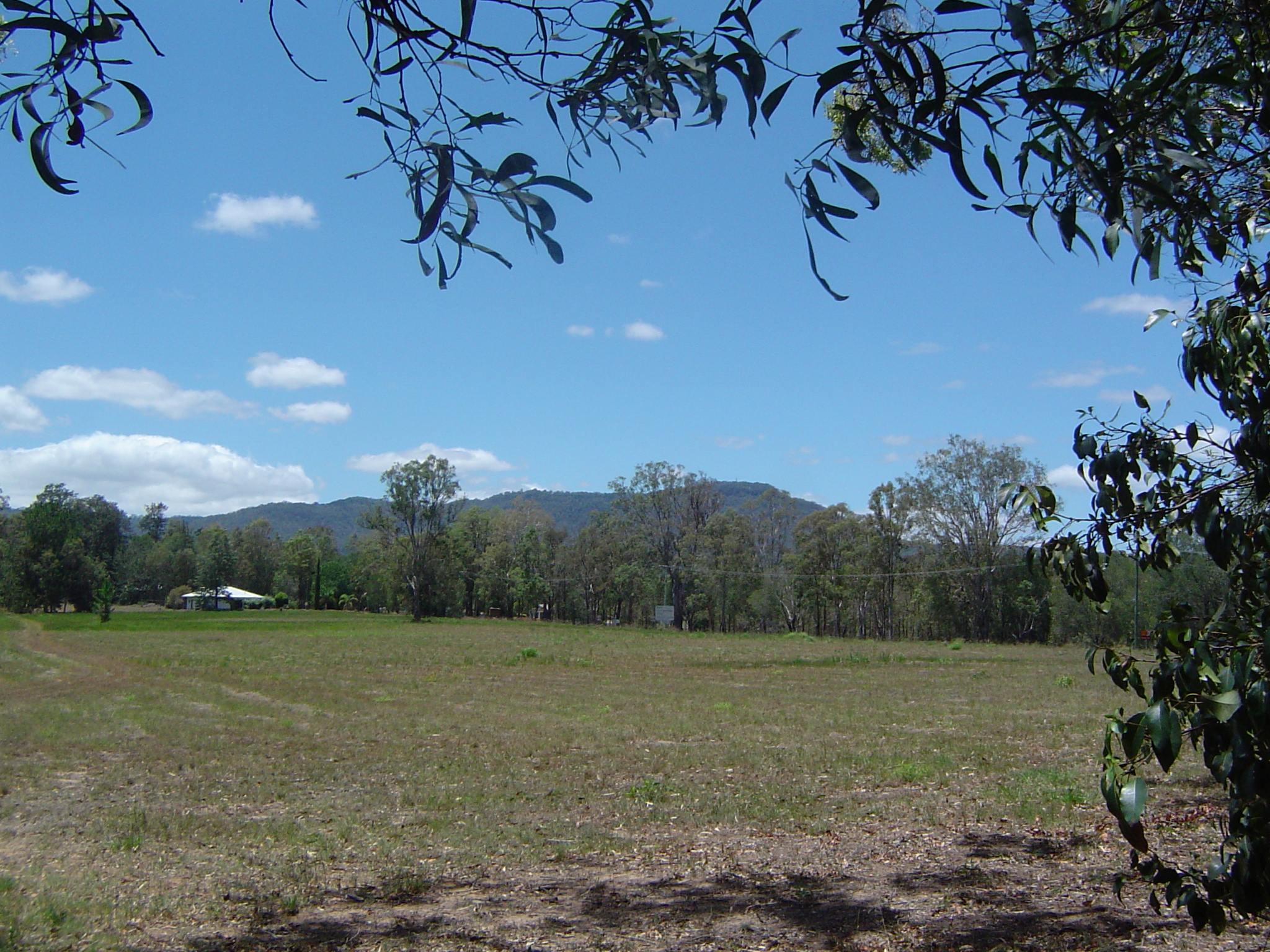 Photo of field and Tamborine Mountain from Tamborine School Park at Tamborine, Queensland, Australia.